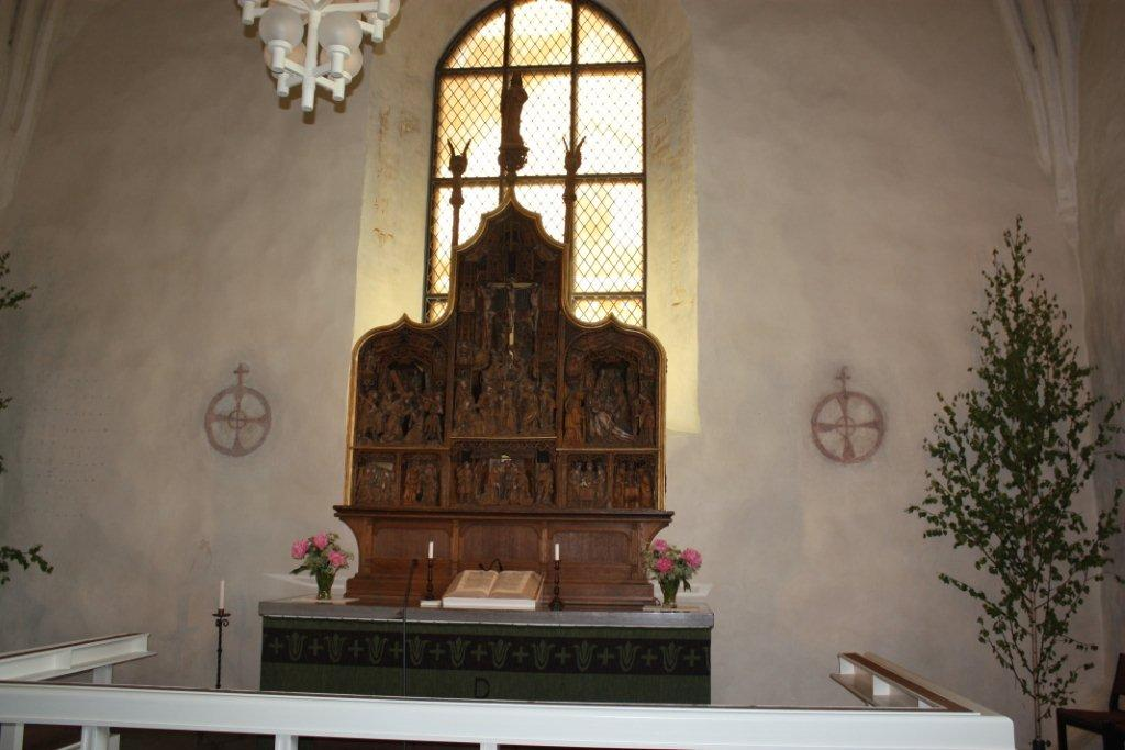 Medieval altarpiece in Vanaja Church, Vanaja, Hämeenlinna, Finland